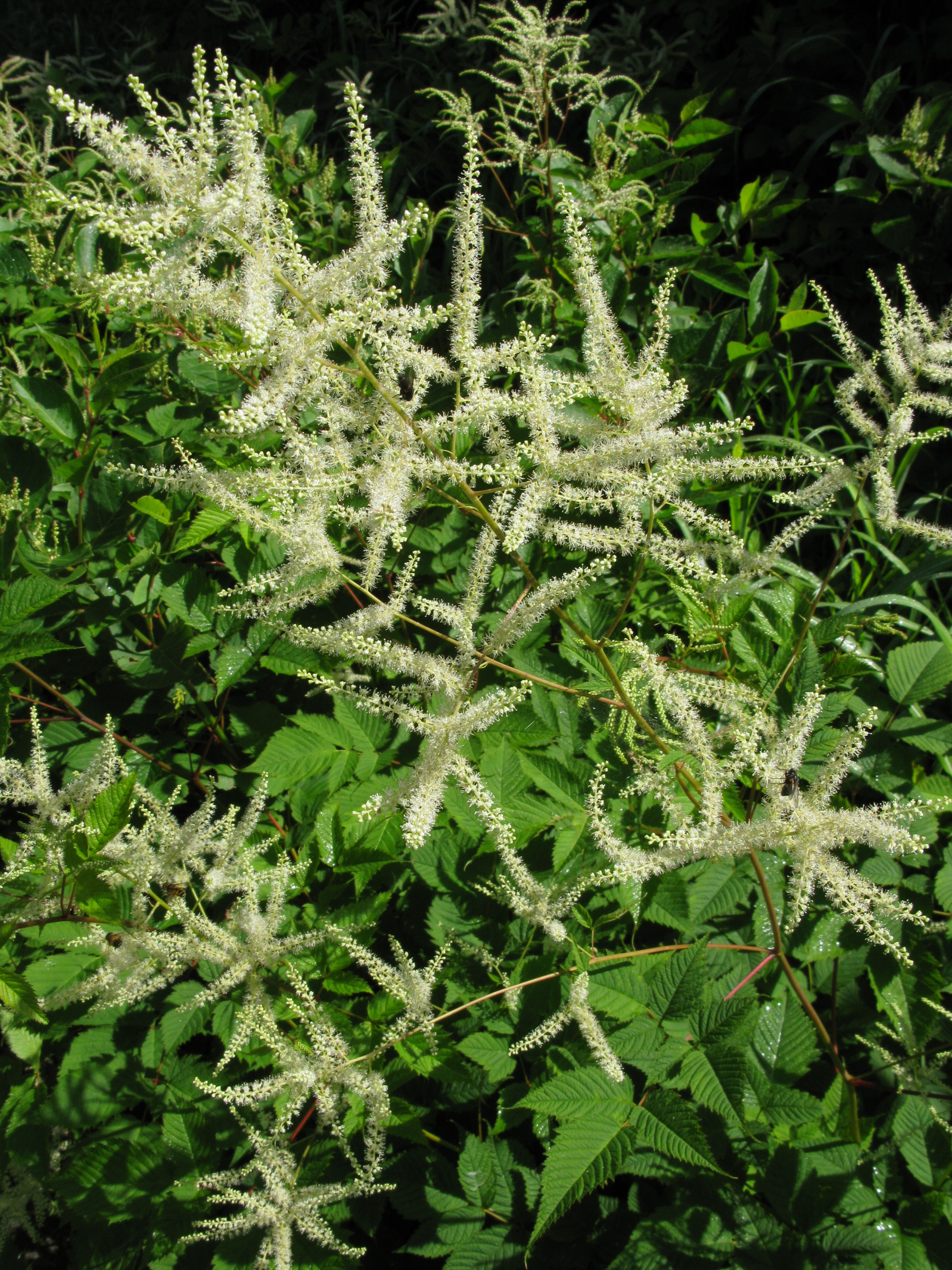 Aruncus dioicus var. kamtschaticus, Aizu area, Fukushima pref., Japan